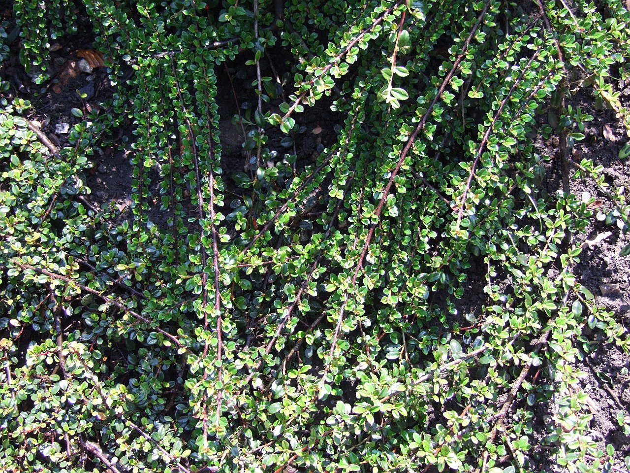 Cotoneaster microphyllus